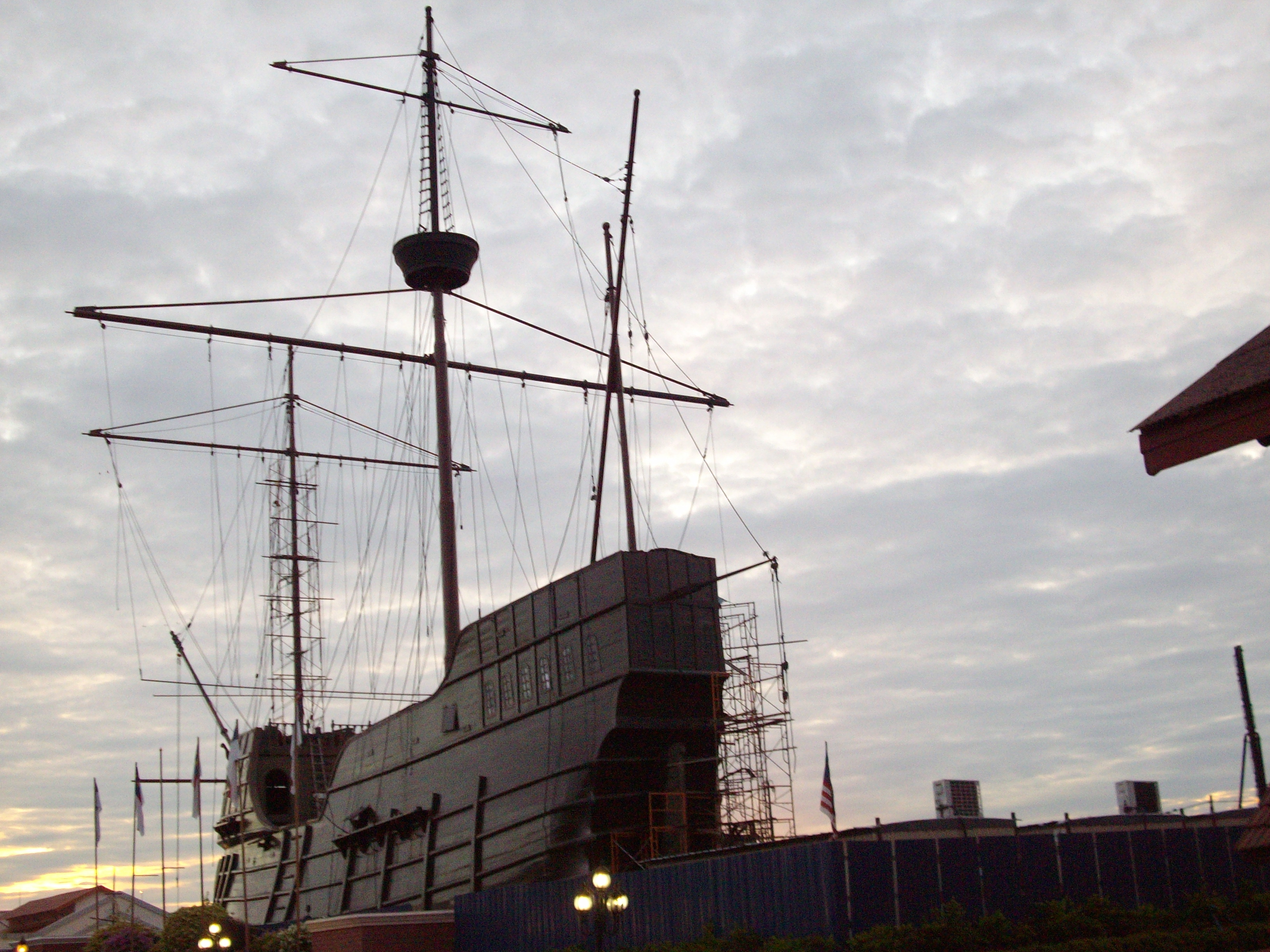 Museum Replica of Portugueese ship"Flor-De-La-Mar" at Melaka port, famous to for its "Sea-Traffic" and "Piracy" in the "Straits Of Malacca".